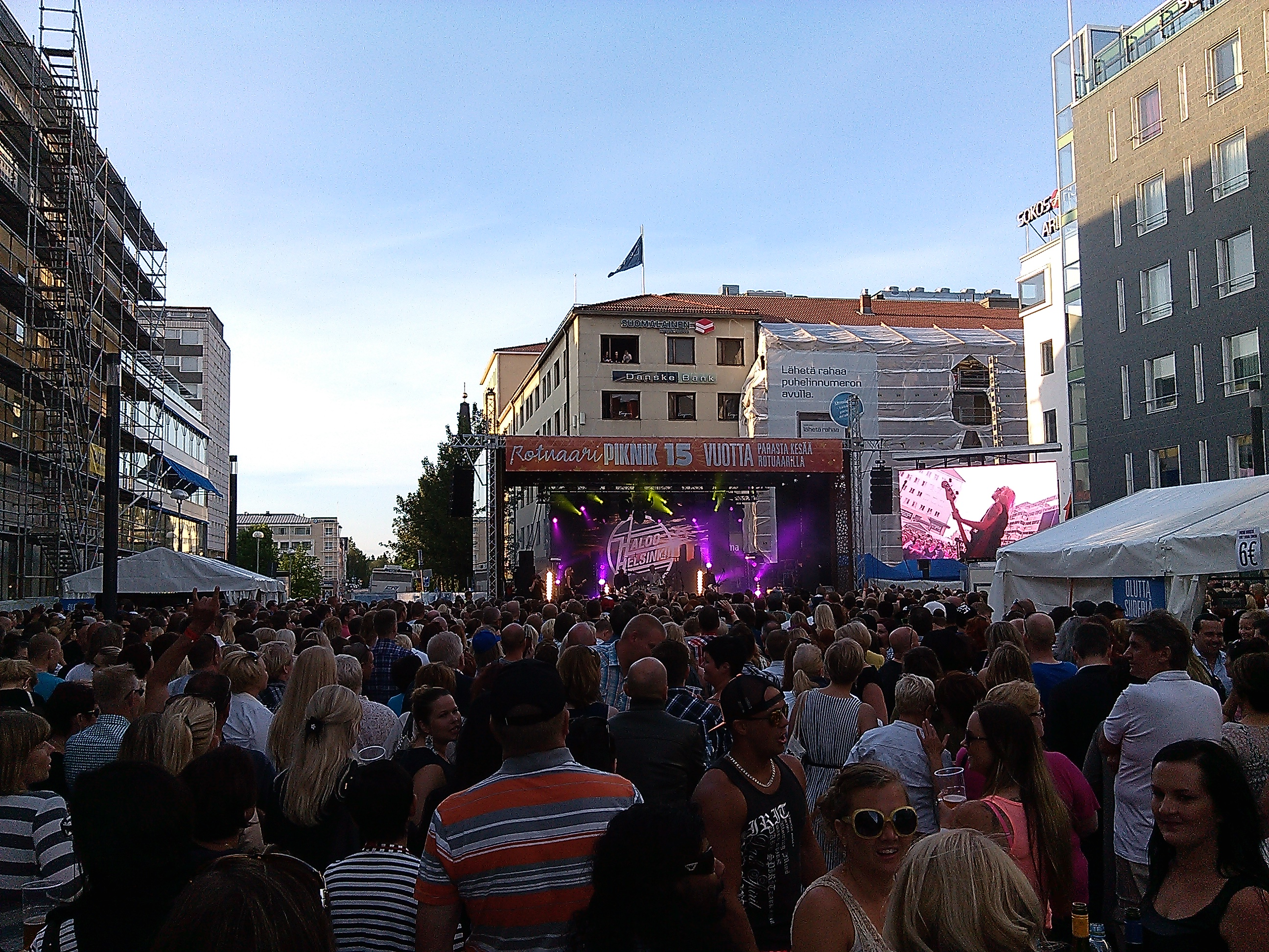 Haloo Helsinki! at Rotuaari Piknik 2014